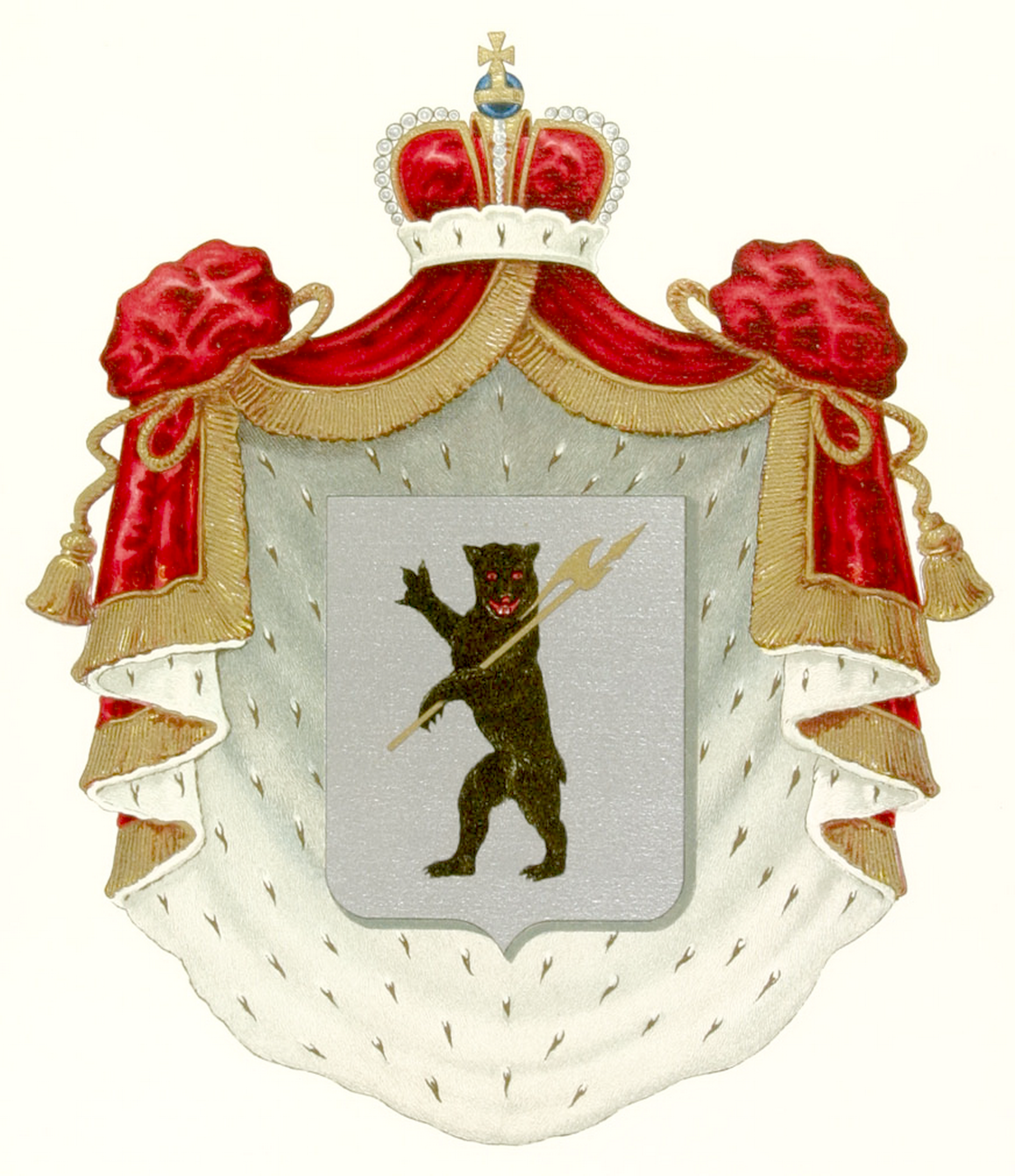 Coat of Arms of family Troekurow